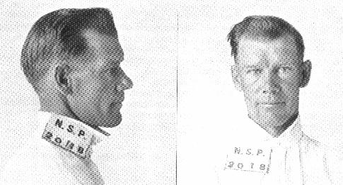 Convicted murderer, Ben Kuhl, in the Nevada State Penitentiary.